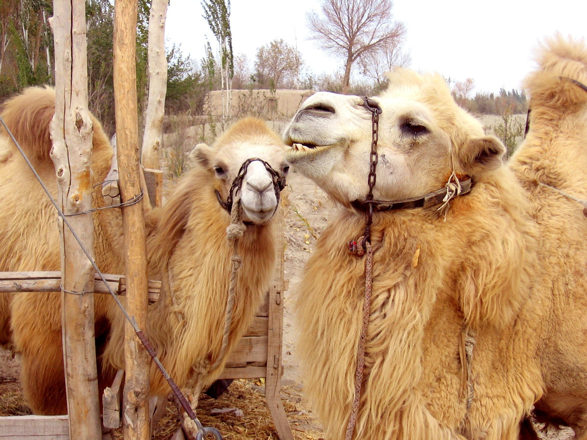 Camels in a little village close to Taklamakan desert near Yarkand, Autonomous Region of Xinjiang, China.